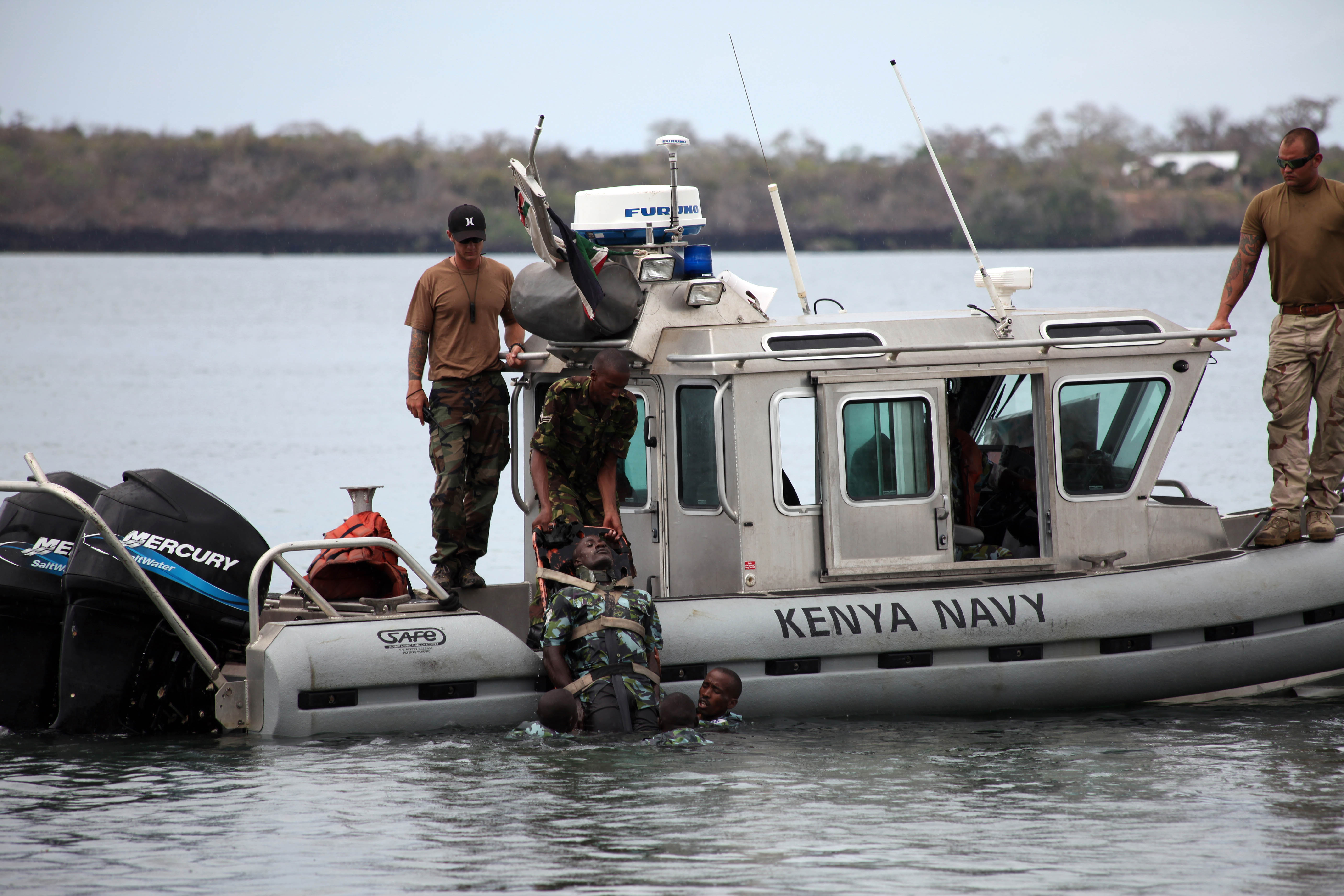 MOMBASSA, Kenya (March 22, 2010) Members of the Kenya Special Boat Unit evacuate a casualty during a mass casualty drill. Sailors assigned to a U.S. Naval Special Warfare task unit are supervising the graduation level field training exercise. The Kenya Special Boat Unit is a new unit of the Kenya Navy. (U.S. Navy photo by Chief Mass Communication Specialist Kathryn Whittenberger/Released)